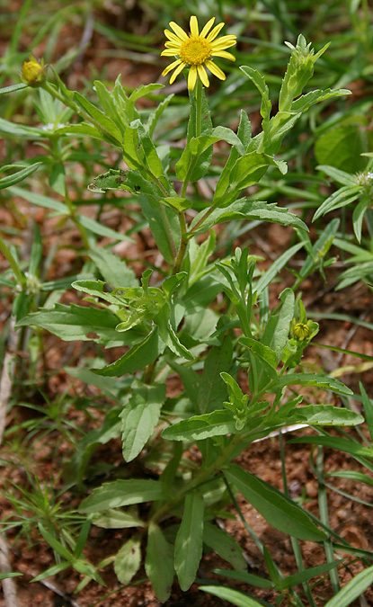 Sontikli Pulicaria wightiana in Hyderabad , India.